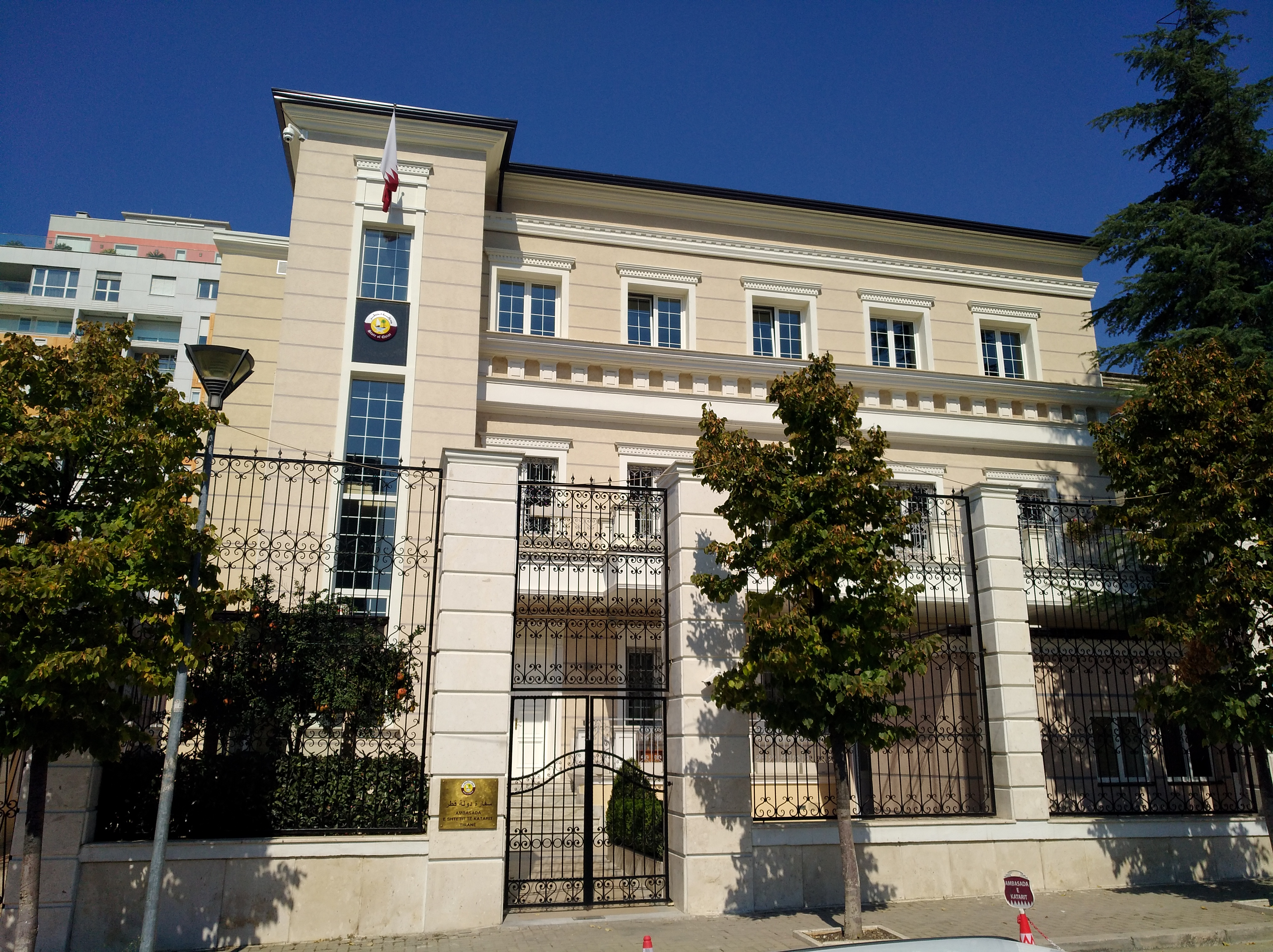 Embassy of Qatar, Asim Zeneli street, Tirana.